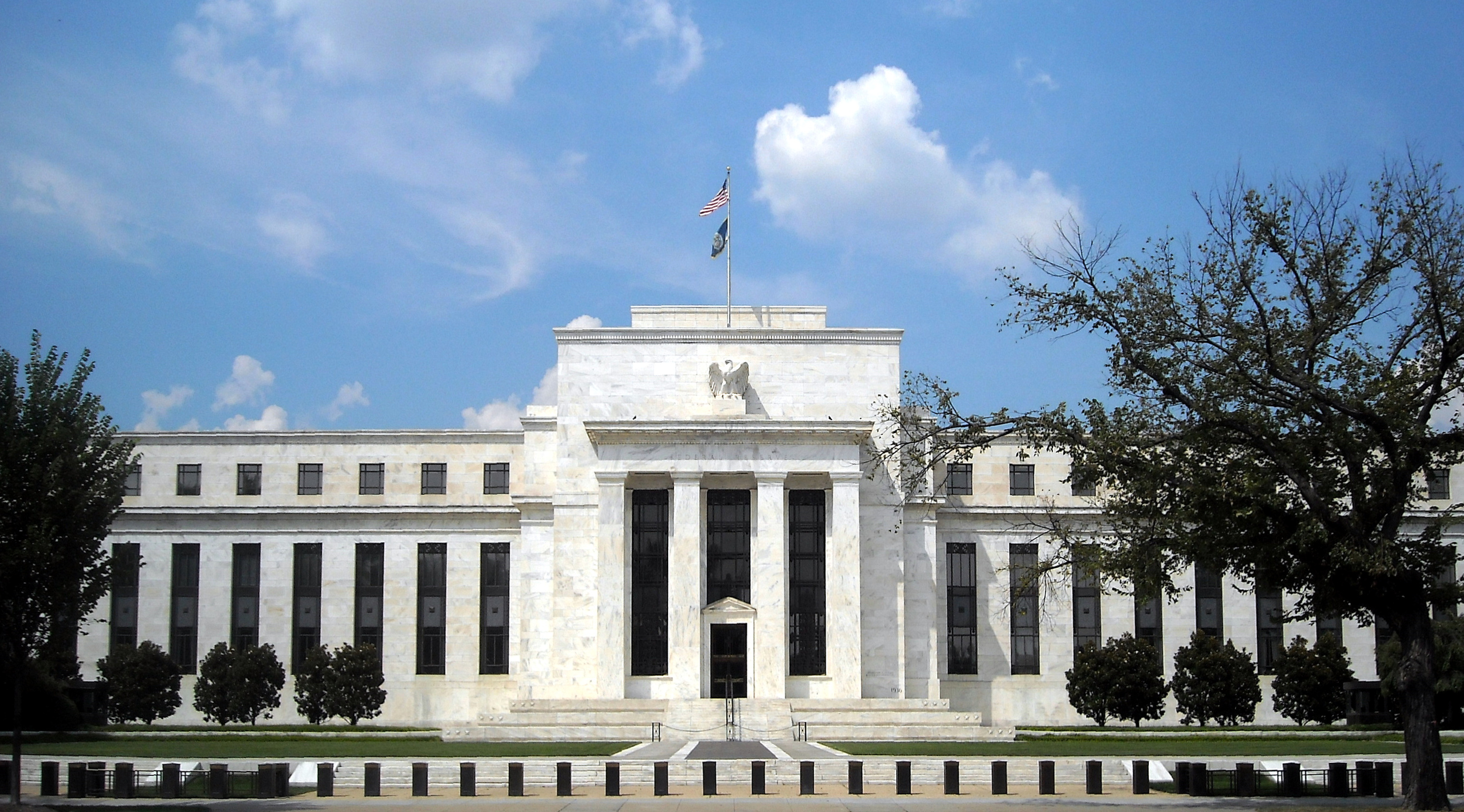 The Marriner S. Eccles Federal Reserve Board Building (commonly known as the Eccles Building or Federal Reserve Building) located at 20th Street & Constitution Avenue NW in the Foggy Bottom neighborhood of Washington, D.C. Designed by architect Paul Philippe Cret in 1935, construction of the Art Deco building was completed in 1937.